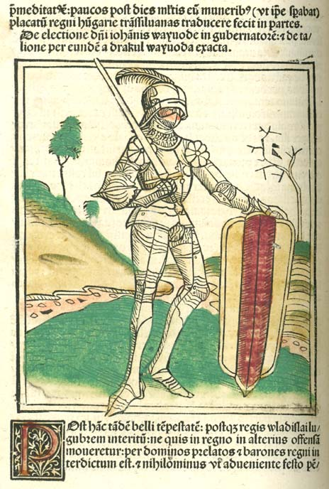 John Hunyadi, by Thuroczy Kronika, Johannes de Thurocz